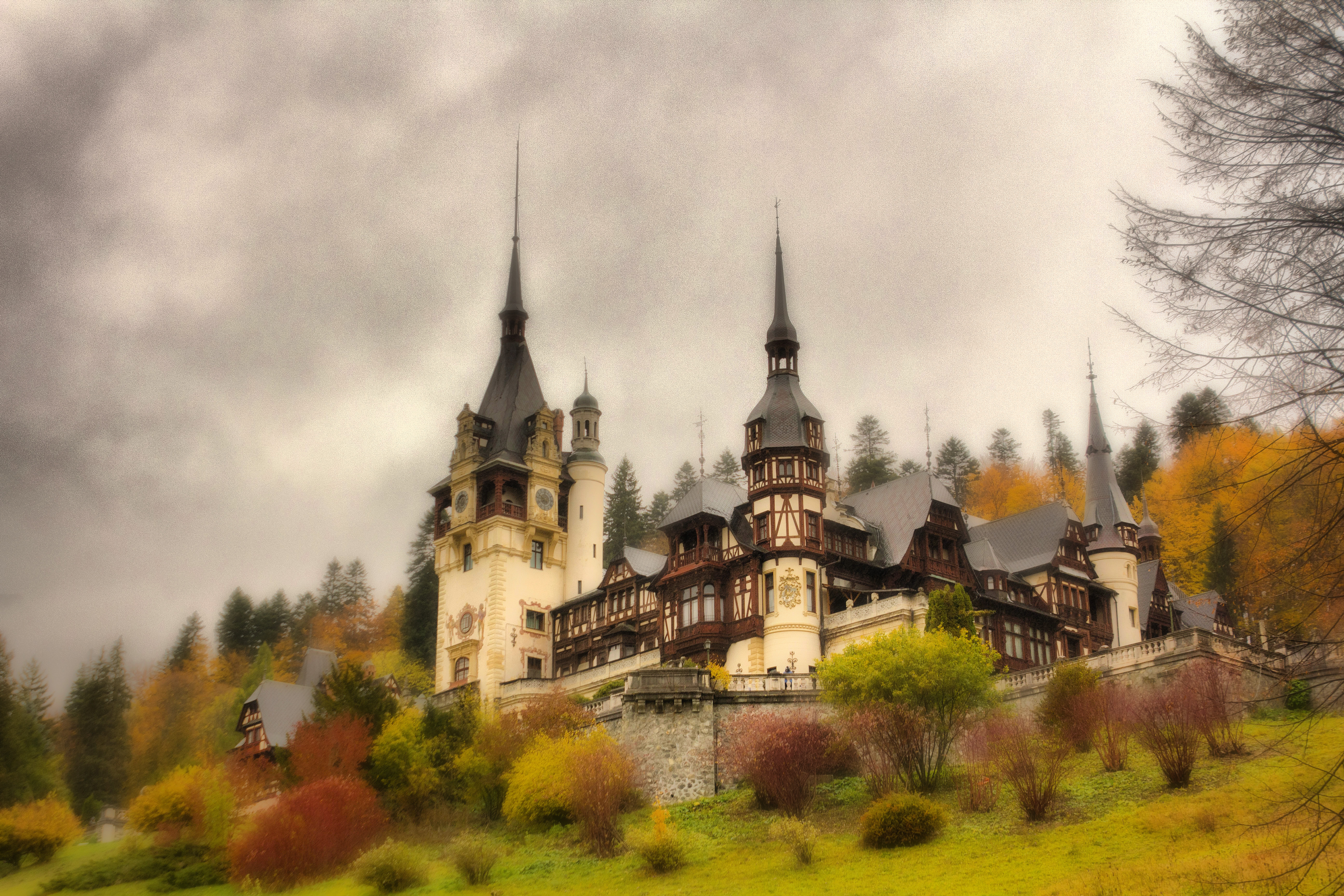 Autumn view of Peleș Castle, Romania, year of 2012